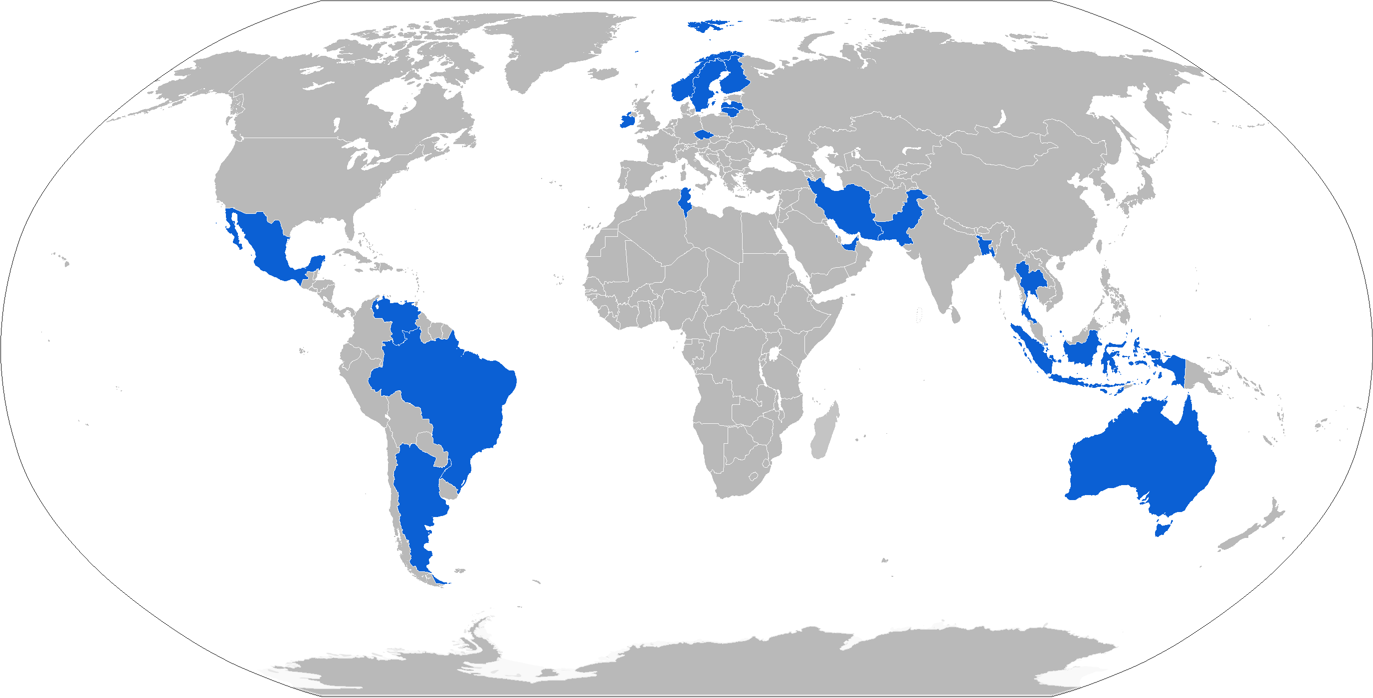 Map with RBS 70 operators in blue